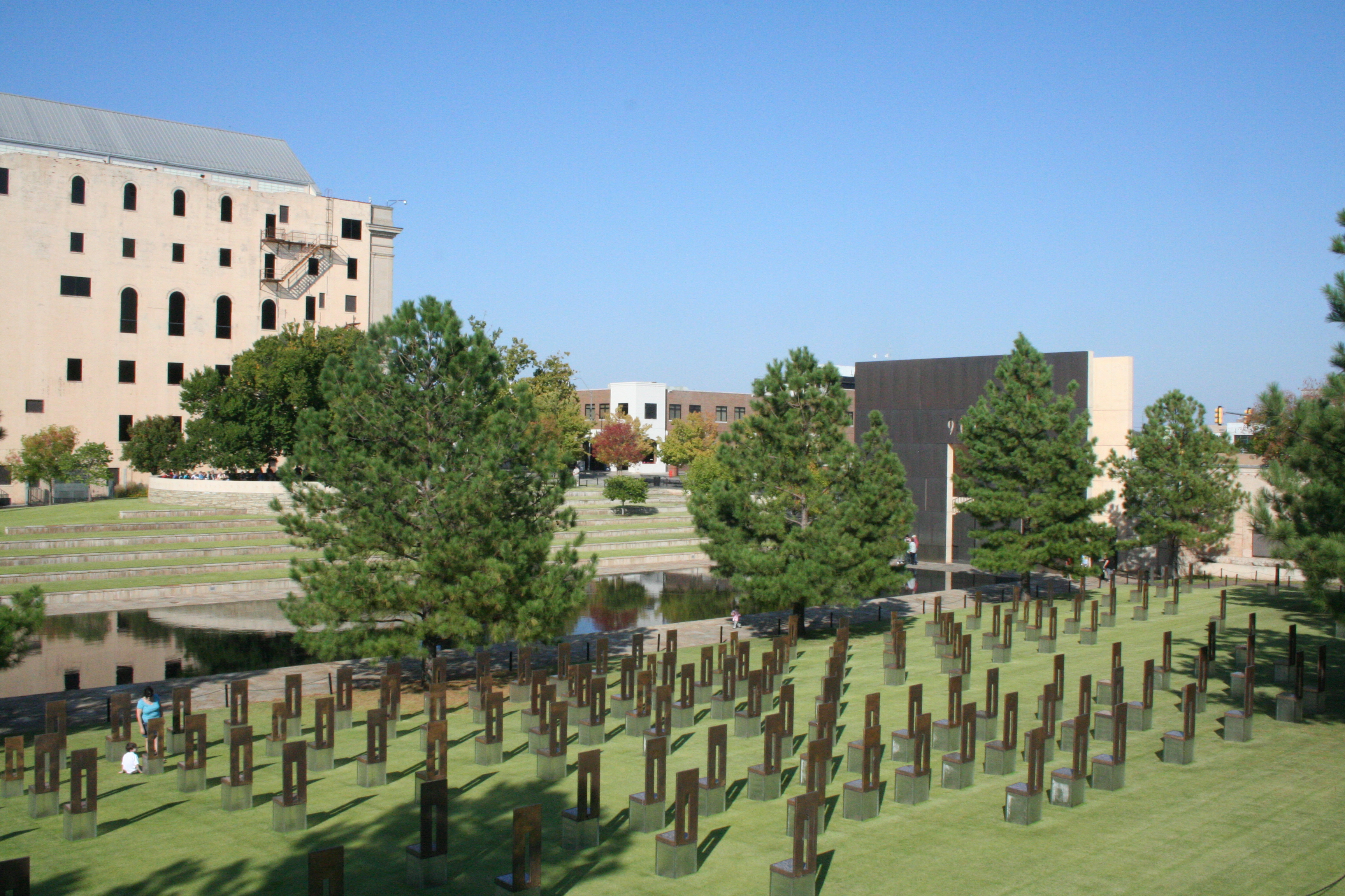 Views in and around the Oklahoma City National Memorial. Field of empty chairs from Murrah Plaza